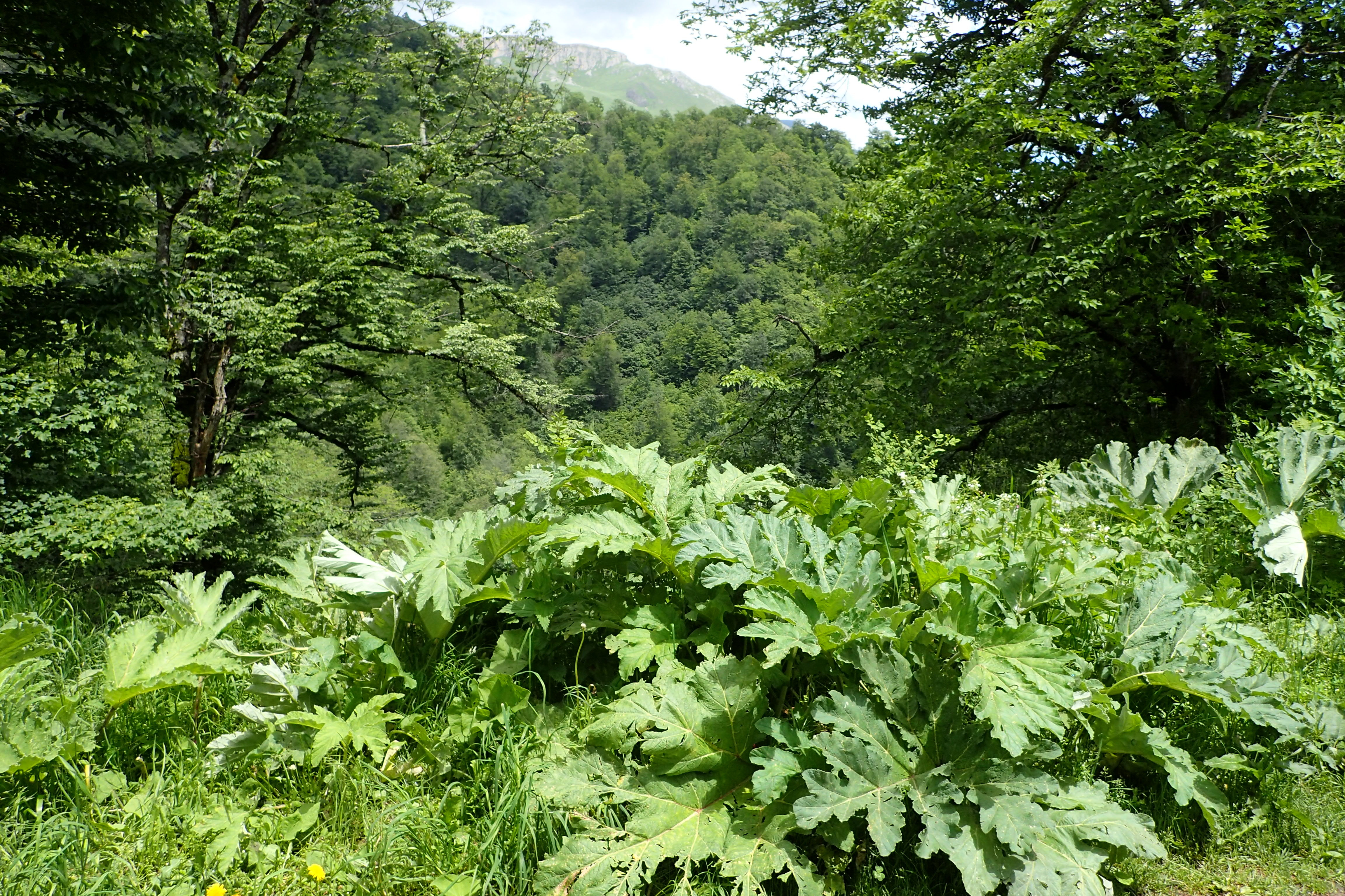 Heracleum sosnowskyi on the edge of forest near Haghartsin in Dilijan National Park (natural stand), Armenia